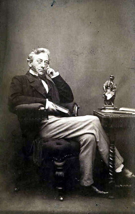 Photographic portrait of John Walpole Willis, judge, produced by an unknown author for The London Stereoscope & Photographic Company. The photograph is an albumen print in the form of a carte de visite. Original held by the State Library of Victoria. Date is unknown; the State Library gives c. 1863 - c. 1890, though Willis died in 1877.